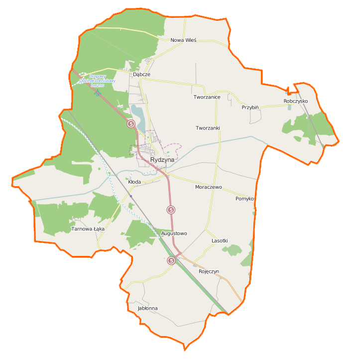 Map of Gmina Rydzyna, Poland This map of Rydzyna (gmina) was created from OpenStreetMap project data, collected by the community. This map may be incomplete, and may contain errors. Don't rely solely on it for navigation. Border coordinates51.854616.5565←↕→16.797751.7015